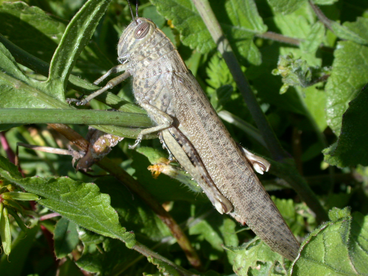 Egyptian Grasshopper, Anacridium aegyptium